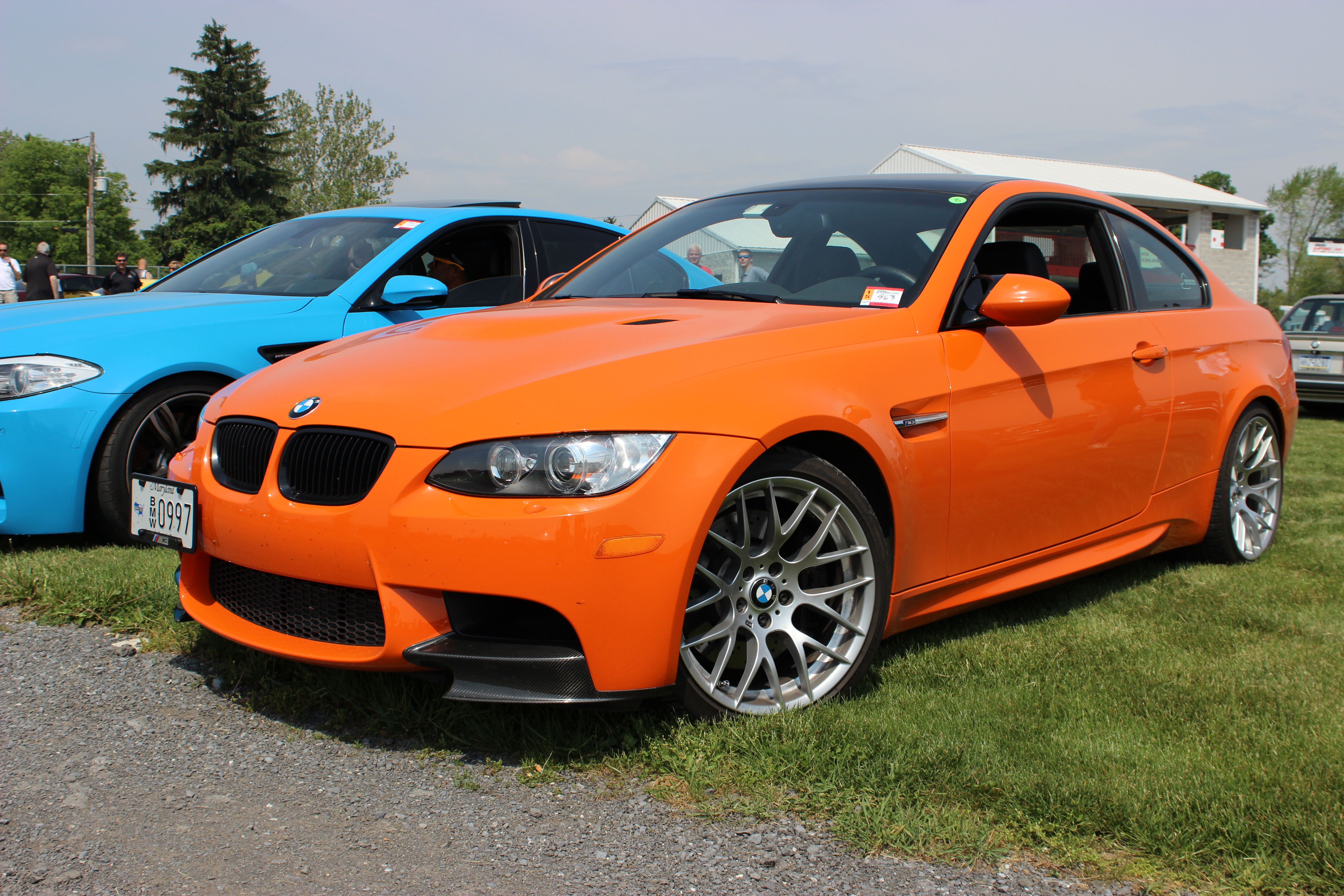 BMW M3 Lime Rock Park Edition